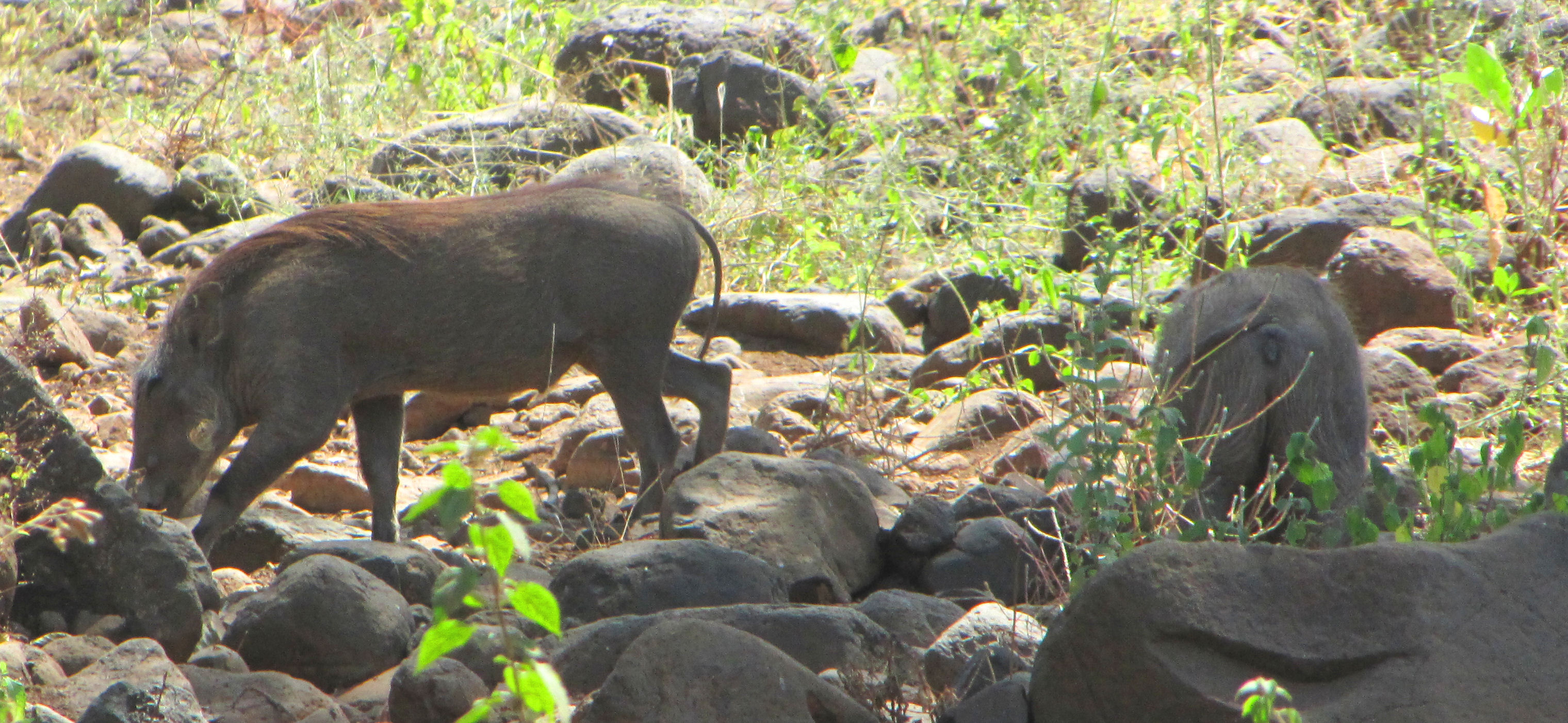 Two Warthogs (Phacochoerus africanus) in a dry streambed in Lake Manyara Park, Tanzania